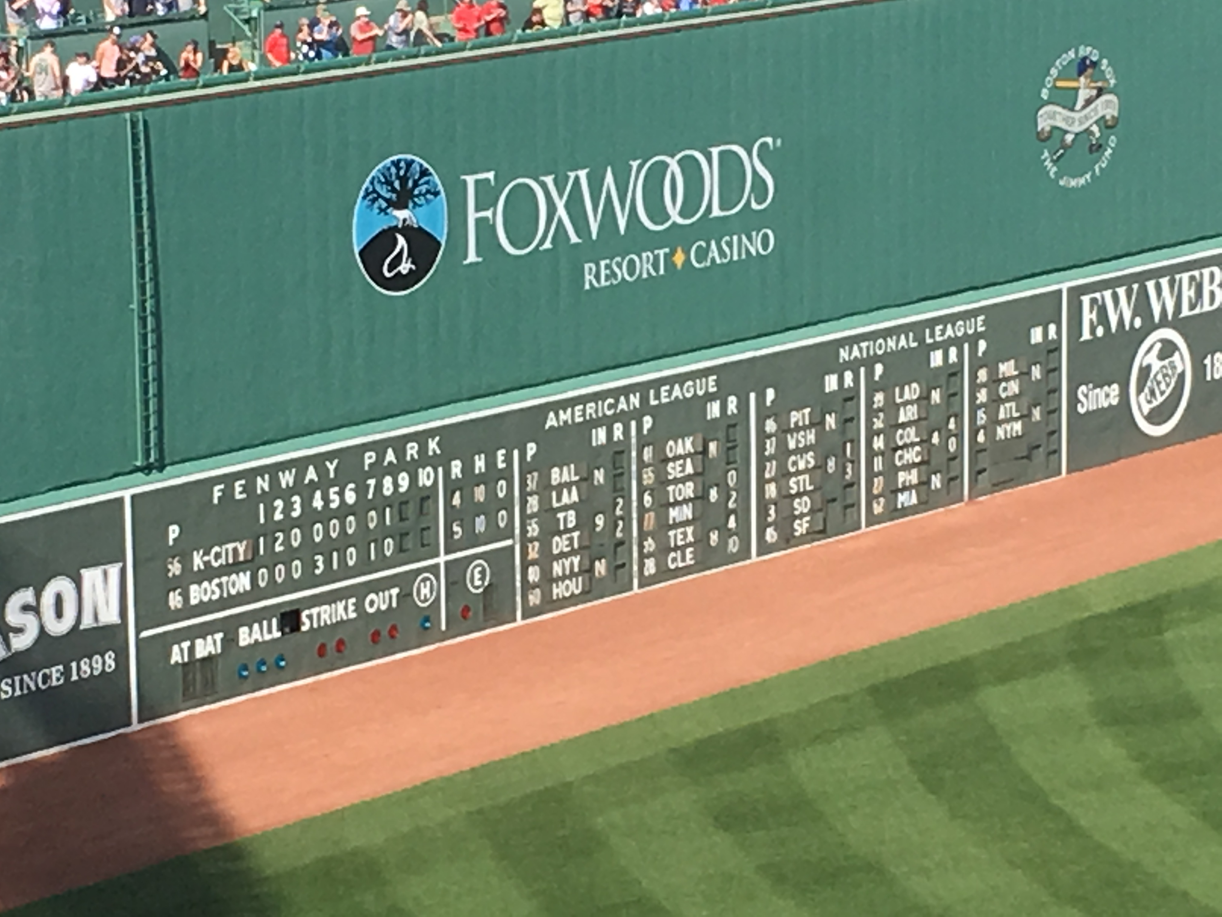 Scoreboard at the conclusion of the Red Sox 5-4 win over the Royals on May 2, 2018, at Fenway Park in Boston